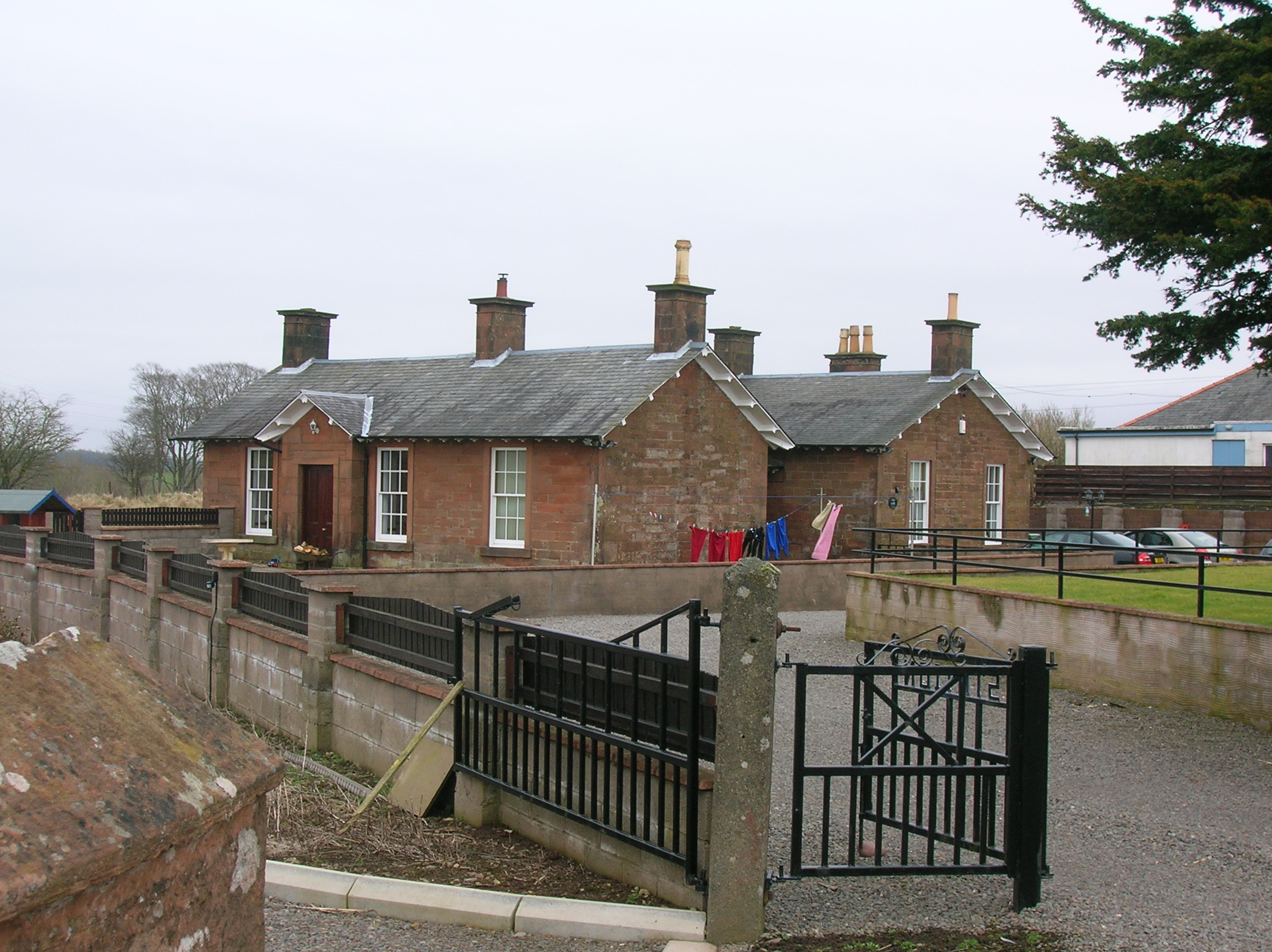 Cummertrees railway station, Dumfries, Scotland. Glasgow - Kilmarnock - Dumfries - Carlisle line.